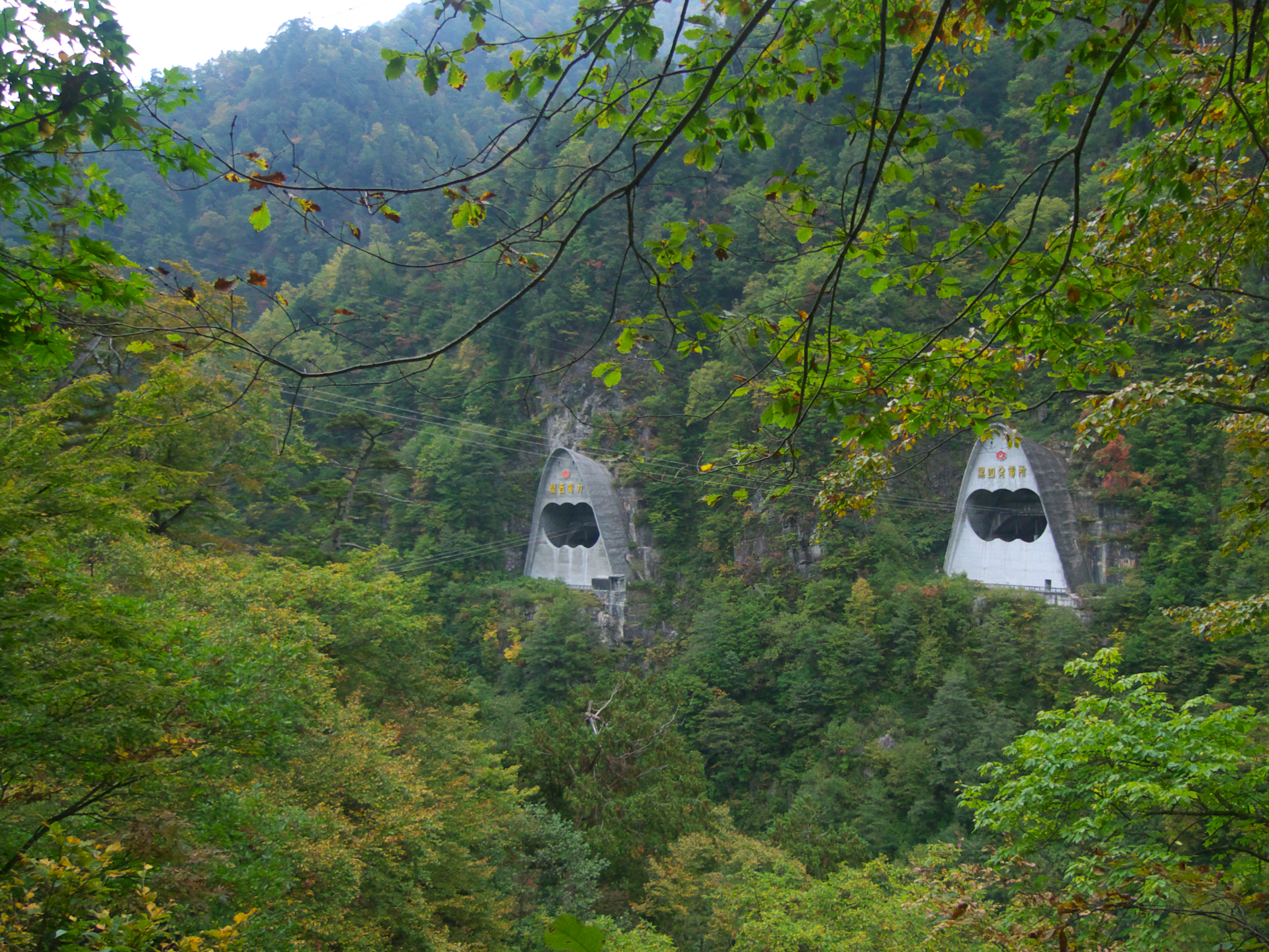 Power lines extend from Kurobegawa No. 4 Power Station (underground) in Tateyama Town, Toyama Prefecture, Japan